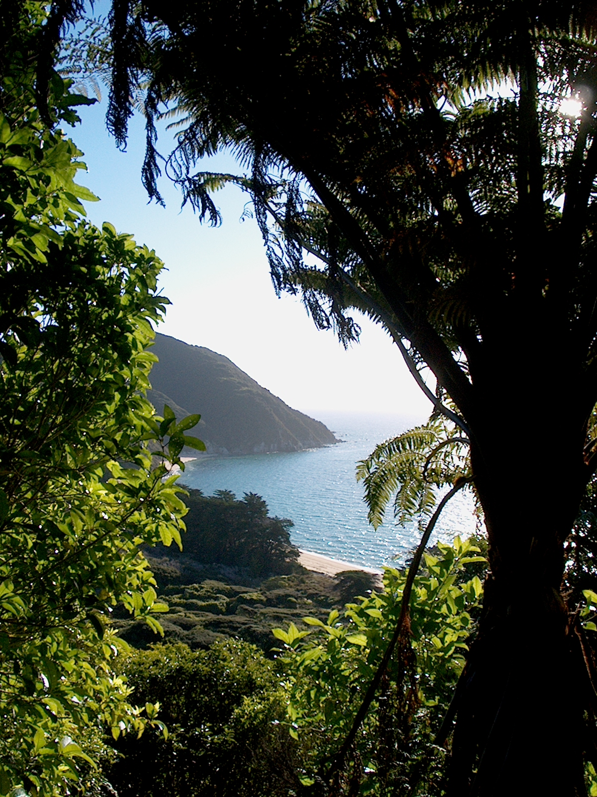 Photo taken by Patrick Orlob, September 2005. One of many beaches along Golden Bay in Abel Tasman National Park on New Zealand's South Island.